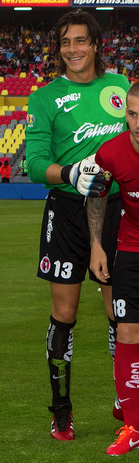 Cirilo Saucedo Vs Monarcas